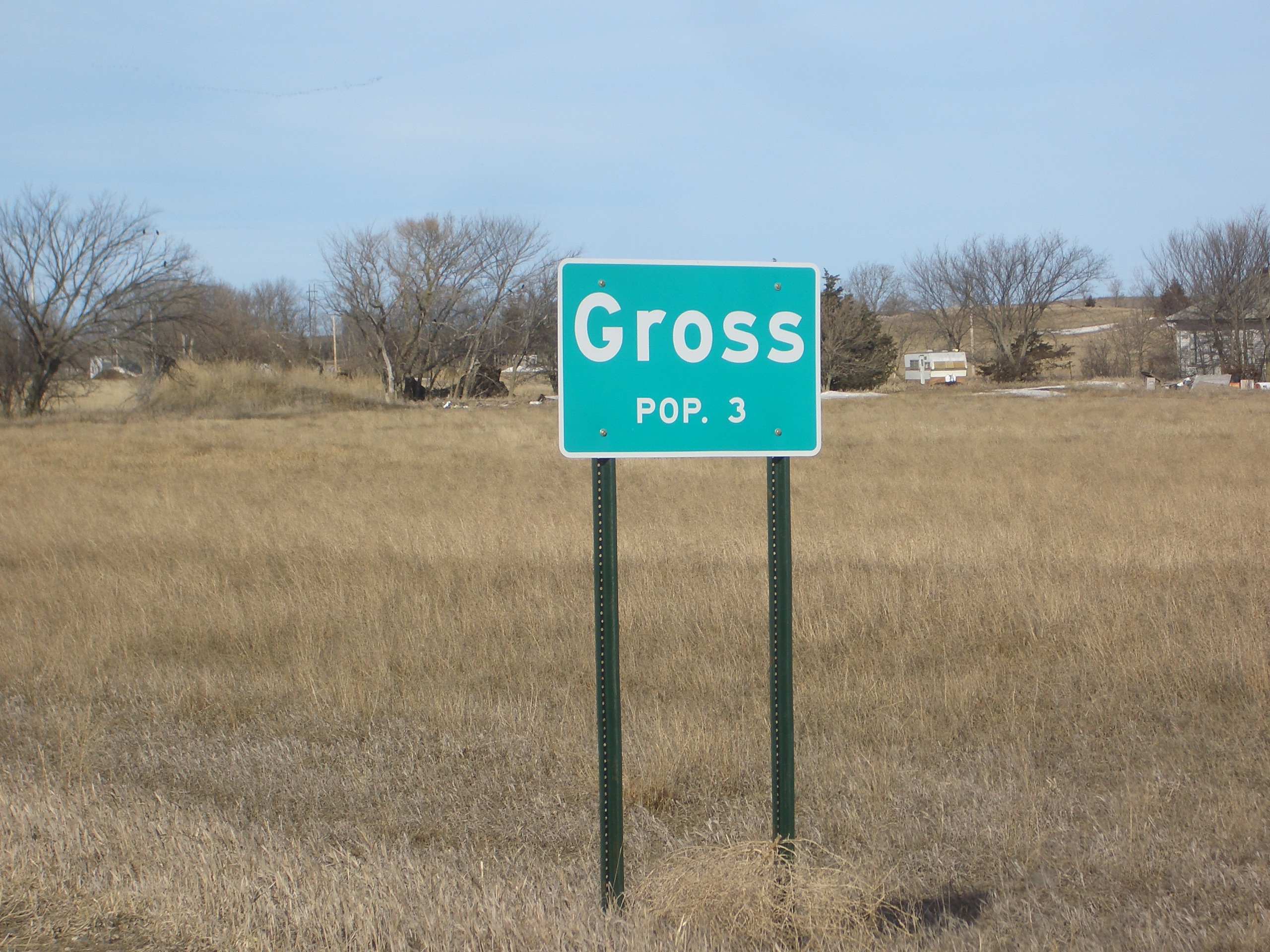 Sign announcing the population (3) of Gross, Nebraska, USA